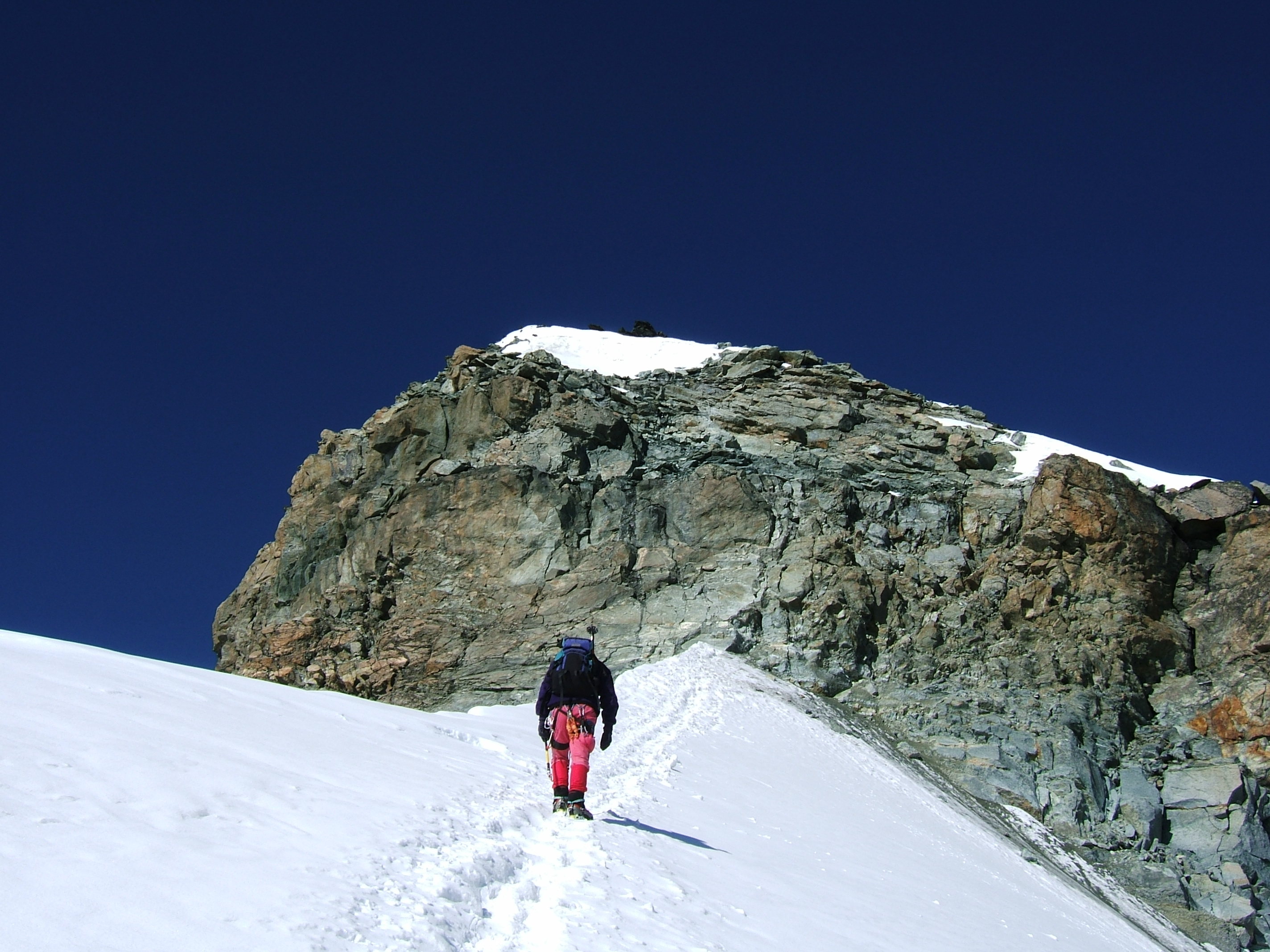 Allalinhorn, Hohlaubgrat just before rock step